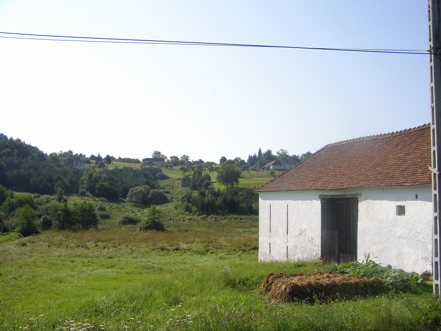 Újbalázsfalva/Otkovci somtime village in Vas, in Apátistvánfalva